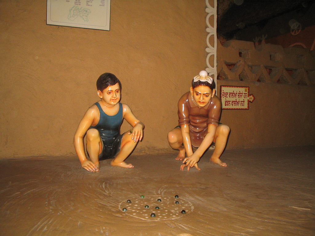 A sculpture depicting common pastime of village boys, as popularly shown in Punjabi movies too. Playing with marbles, trying to knock them into the central hole, much like golf and other games. The location is Rangla Punjab/Haveli on the GT Road near Lucky Dhaba and Mall in Jalandhar, Punjab. -- I shot this and other photos, while an outing with relatives from Vapi and Vashi, when they visited Punjab re Ceremonial shaving of head of first child at Tape of Rajan Bhaiya and Diwali celebrations, relatives Jaipal ji, on a visit to Punjab when in Jalandhar. Ashwani Kumar (father, on wheelchair) wanted to show them the typical rural Punjab feel, and so these "Dhabas".